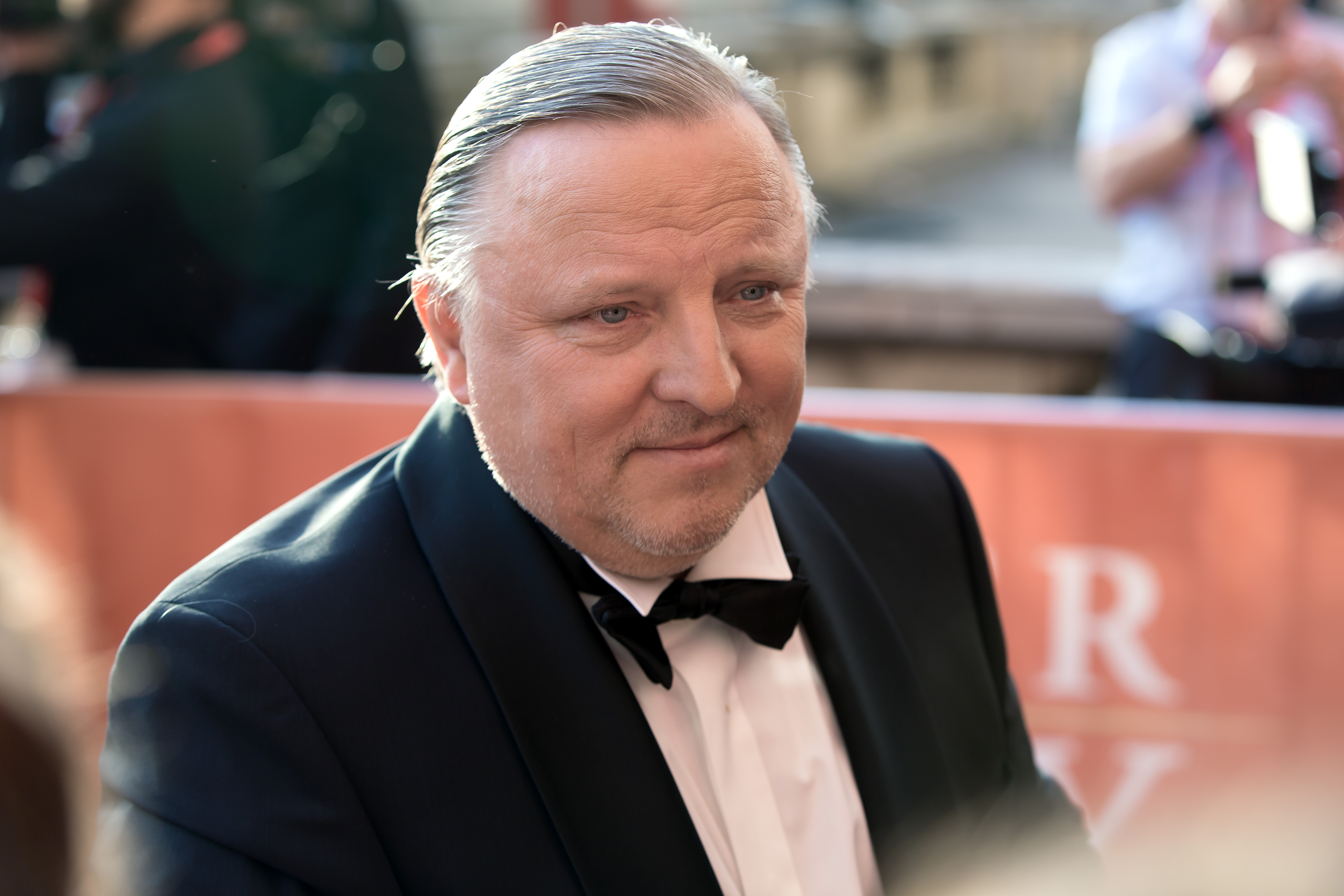 Axel Prahl on the red carpet of the Romy TV awards at Hofburg Palace in Vienna, Austria.